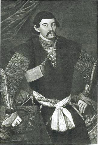 Prince Alexander of Imereti